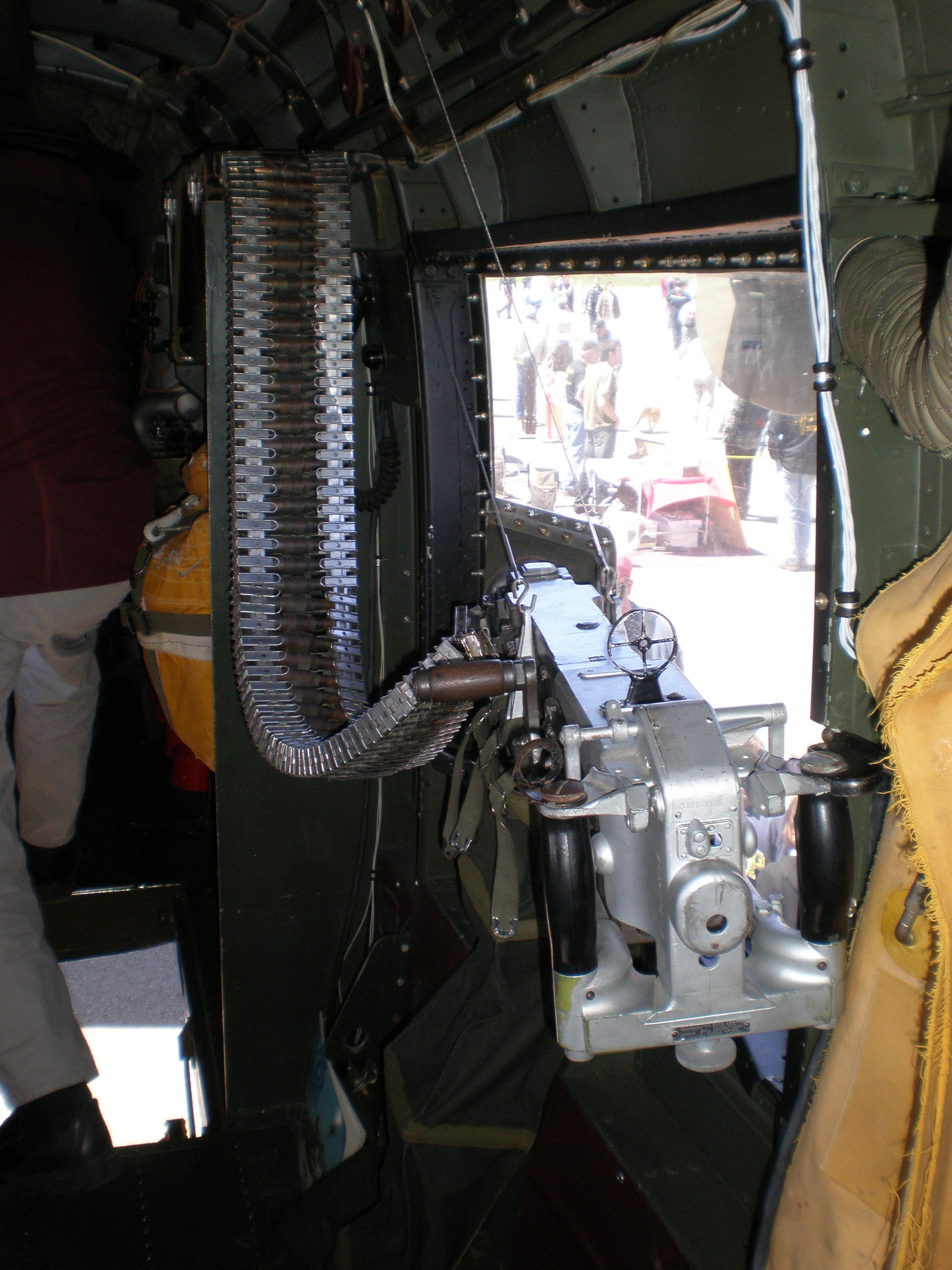 The port waist gun of the B-25J "Heavenly Body", which was on display and available for tour at the Pacific Coast Dream Machines vehicle show at the Half Moon Bay Airport in Half Moon Bay, California.